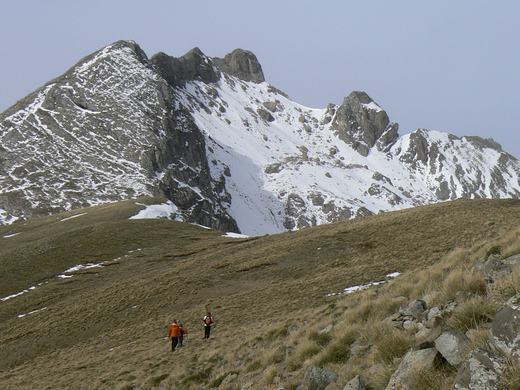 Vardousia Mts. - ascent to Soufles